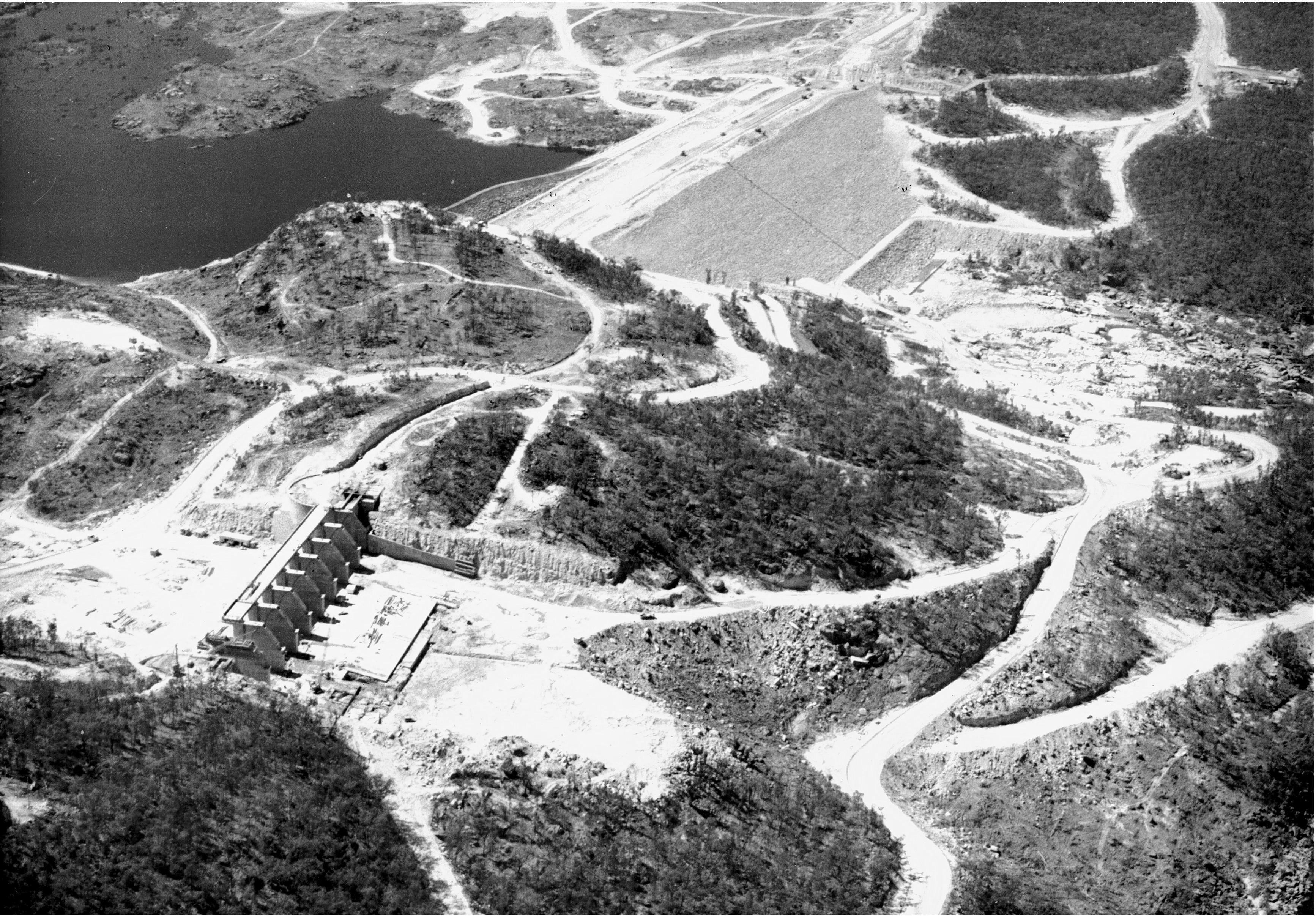 Copeton Dam while under construction - circa 1972 - picture taken from the air looking ENE